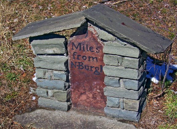 Photographed by Daniel Case 2006-03-05 on the north side of Route 17K near the Orange County Farmers' Museum.